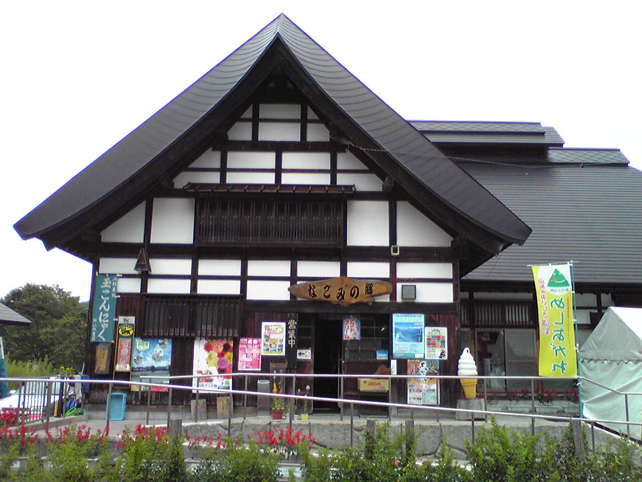 Regional resource use center, Tazawa, Roadside Station, Yamagata, Japan.